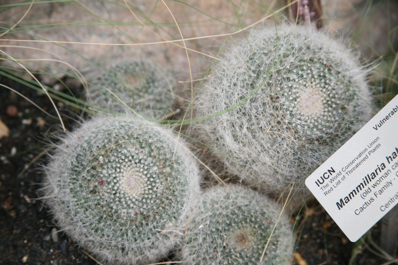 Old Woman Cactus (Mammillaria hahniana)